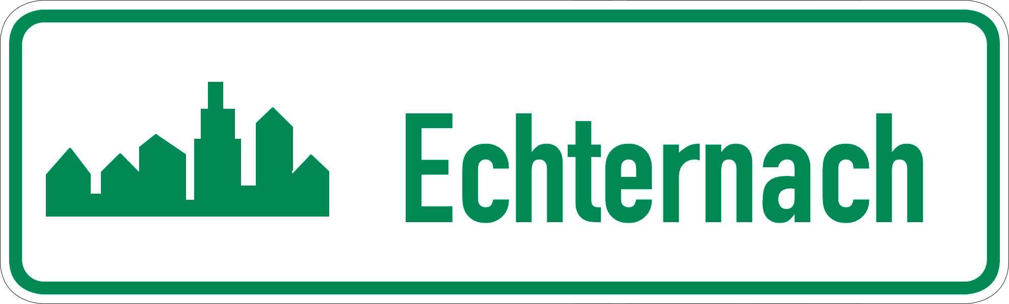 Diagram of road signs of Luxembourg